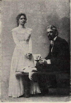 Constantin Stanislavski as Trigorin, and Maria Roksanova, in the Moscow Art Theatre's production of The Seagull